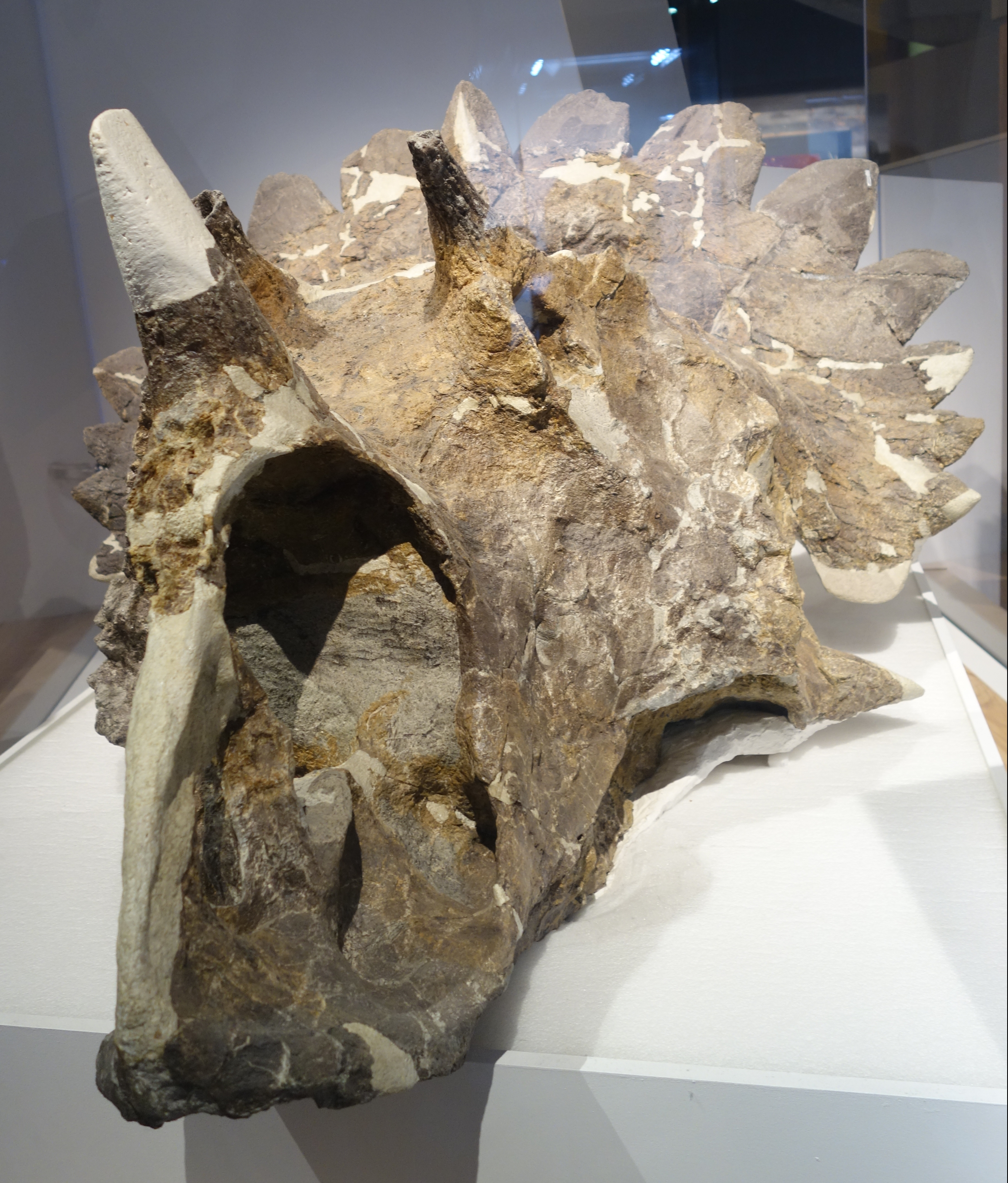 Skull of Regaliceratops petershewsi (original). Specimen number TMP 2005.055.0002. Found in the St. Mary River Formation, Waldron Flats, Alberta. On display at the Royal Tyrrell Museum, Alberta.